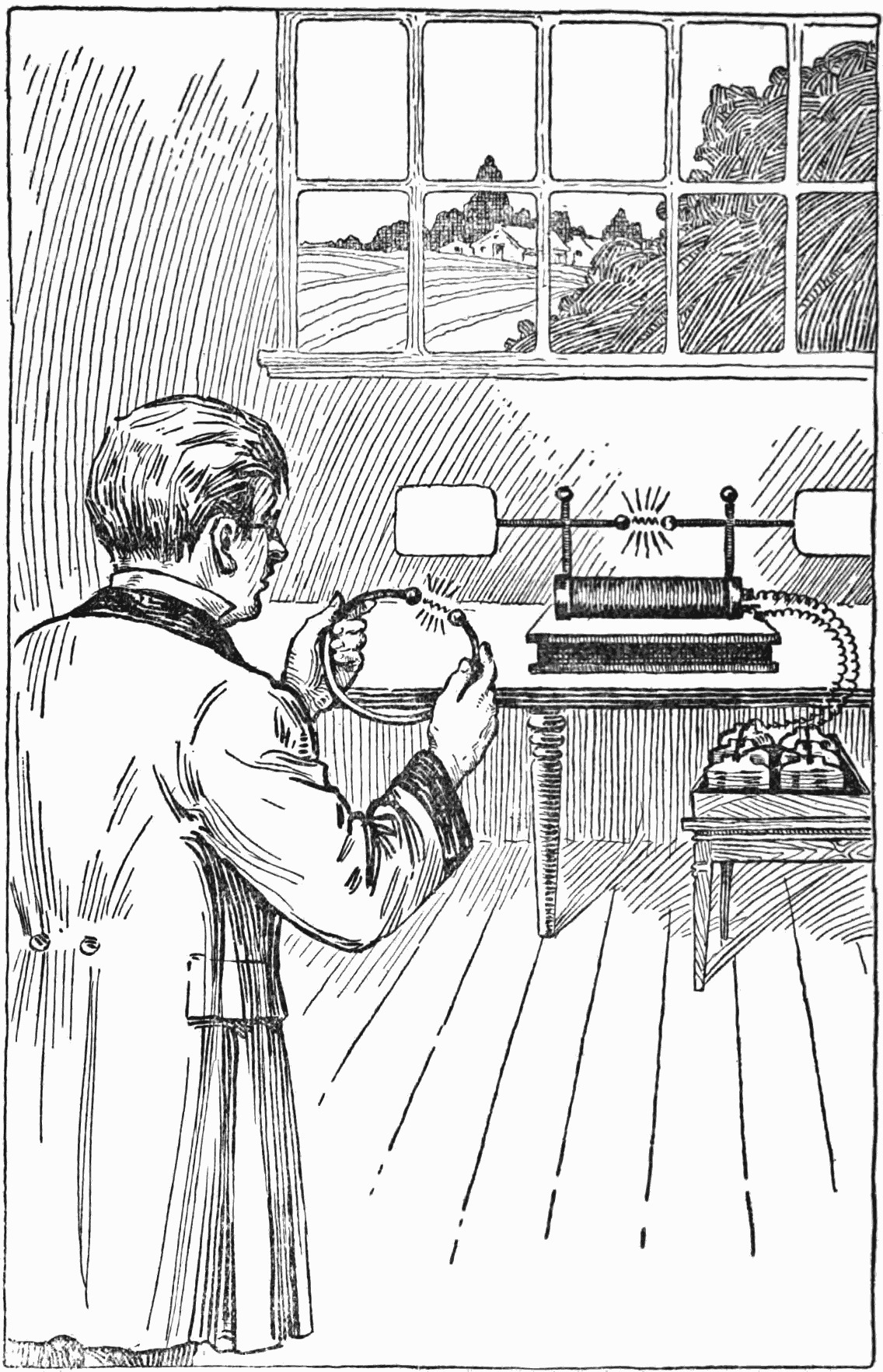 Artist's conception of German scientist Heinrich Hertz historic discovery of radio waves in 1886. To generate the waves Hertz used a spark gap radio transmitter (rear) consisting of a spark gap between two brass balls attached to a half-wave dipole antenna consisting of two wires with metal plates at the ends, powered by a Ruhmkorff coil with primary current supplied by a set of liquid batteries on the lower table. The Ruhmkorff coil generated pulses of high voltage which caused sparks to jump between the brass balls. Each spark excited oscillating radio frequency currents in the antenna, which were radiated as electromagnetic waves (radio waves). For a receiver, Hertz used a simple loop of wire (in his hands) with a narrow gap between the ends, forming a narrow spark gap (this picture is slightly inaccurate; Hertz actually used a micrometer gap consisting of an adjustable thumbscrew with its end close to the opposite electrode, to precisely measure the spark length). The length of the wire was a quarter wavelength, so the loop formed a resonant loop antenna, and the radio waves excited a voltage in the wire. So each spark of the transmitter excited a spark in the receiver loop. The transmitter shown was one common type Hertz used, but not necessarily the one with which he made his discovery. Hertz experimented with various types of antenna, from a bare spark gap to dipoles 8 feet long, with square metal plates, round metal plates, and metal balls on their ends. Also, the size of the receiver spark gap is exaggerated in the drawing. The gap in the receiving loop was very small, less than a millimeter, to detect the weak voltages induced. Some of his receiving loops used a gap adjusted by a micrometer.